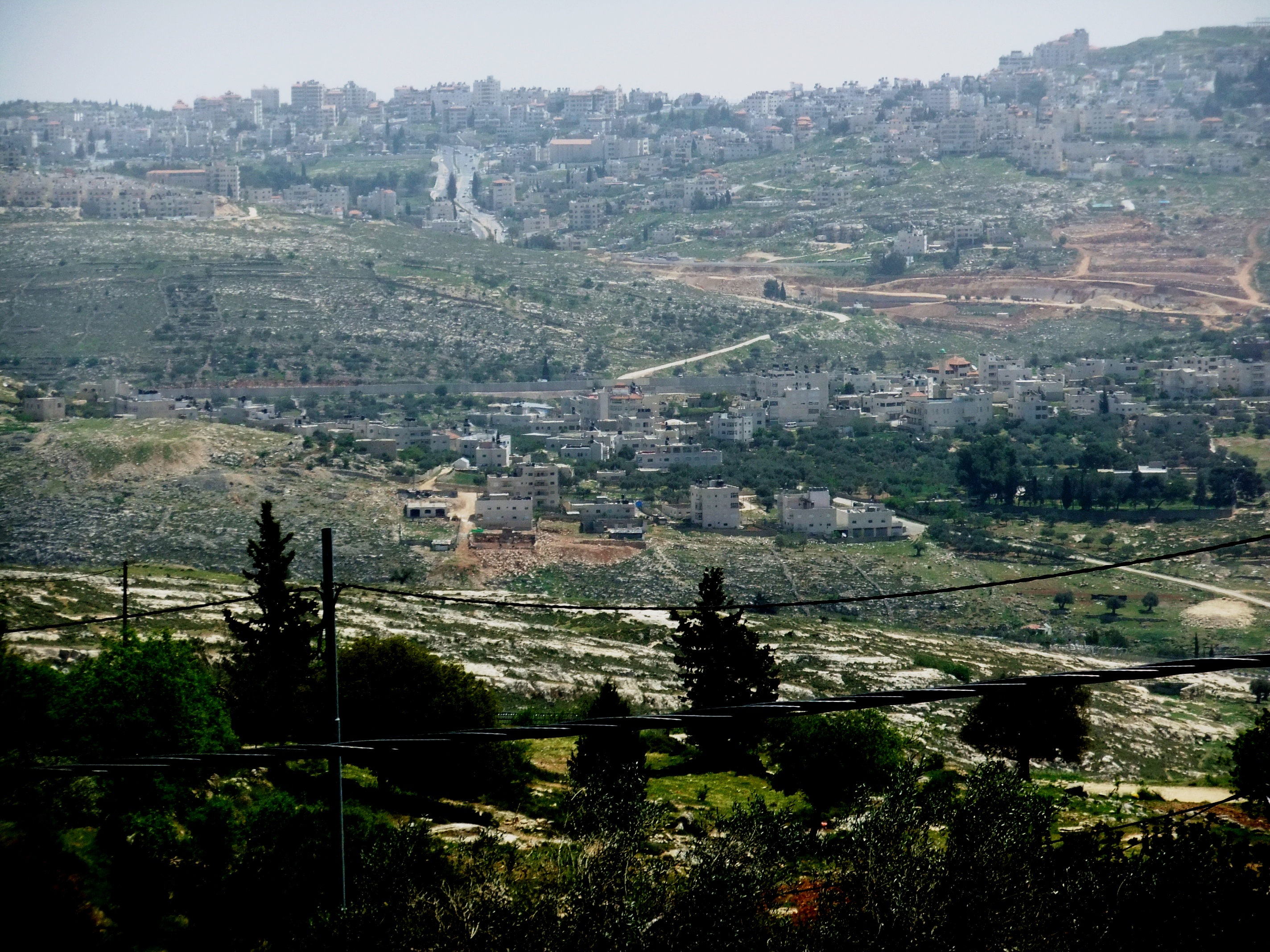 In the center is the old village of Beit Hanina (Beit Hanina al-Balad) as viewed eastward from the Tomb of Samuel. Above is the new village of Beit Hanina (Beit Hanina al-Jadid), presently a neighborhood of JerusalemHorizontally in the center are walls along Begin Expressway which also serve as part of Israel's separation barrier.The large boulevard at the top is Abdel Hamid Shomaan Street, part of the new Jerusalem Road 20The brown area on the right just above center is construction of the extension of Shomaan Street to Begin Expressway.FOR A VERSION OF THE PHOTO WITH LABELS: File:BeitHanina9861-labels.png